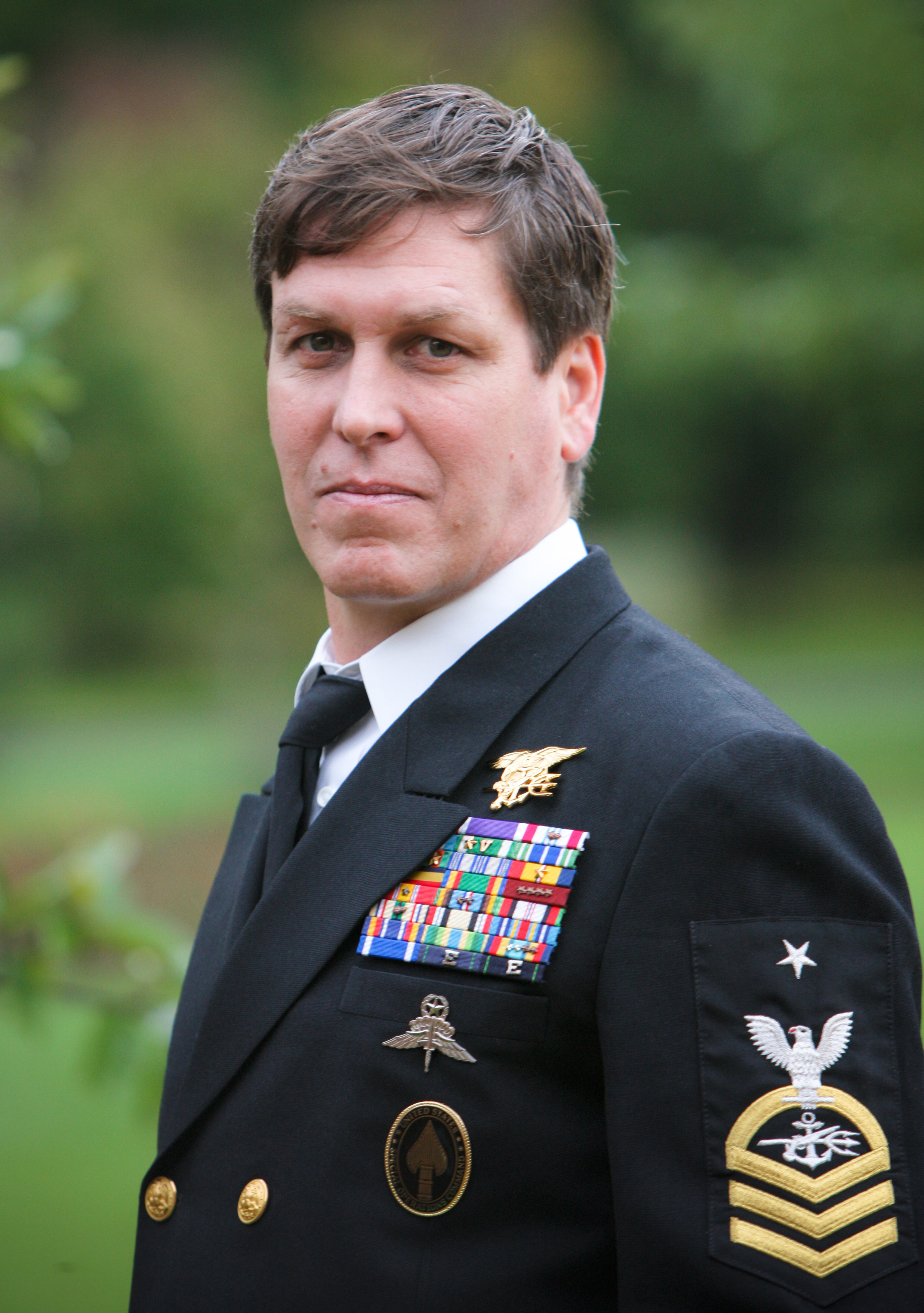 Chris Beck, Navy Seal, in uniform (c2011)